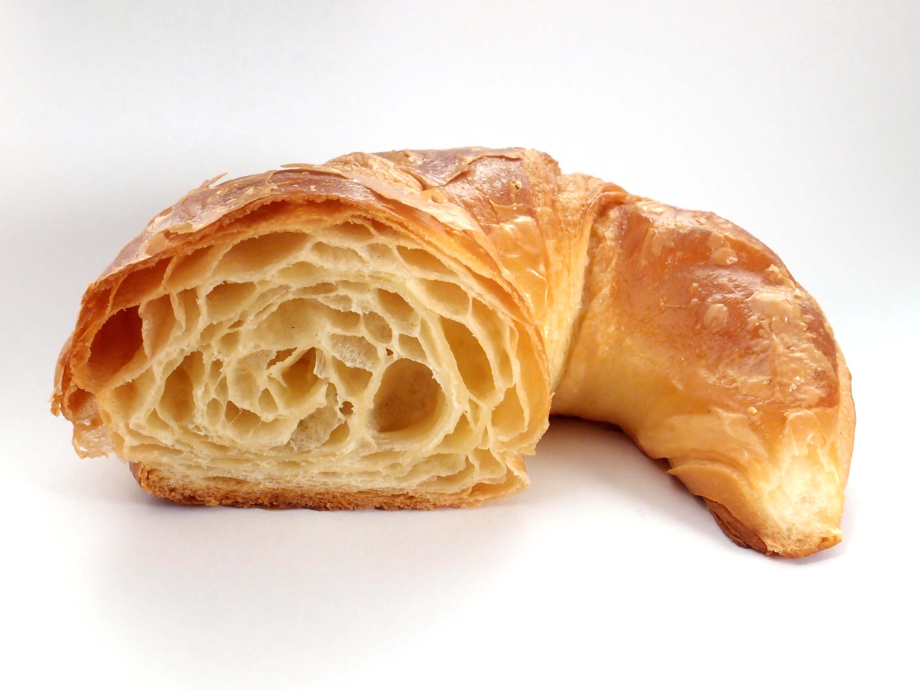 Cross section through a croissant, showing the typical crumb structure of the laminated, yeast-leavened dough that croissants are made from, very similar to Danish pastry.